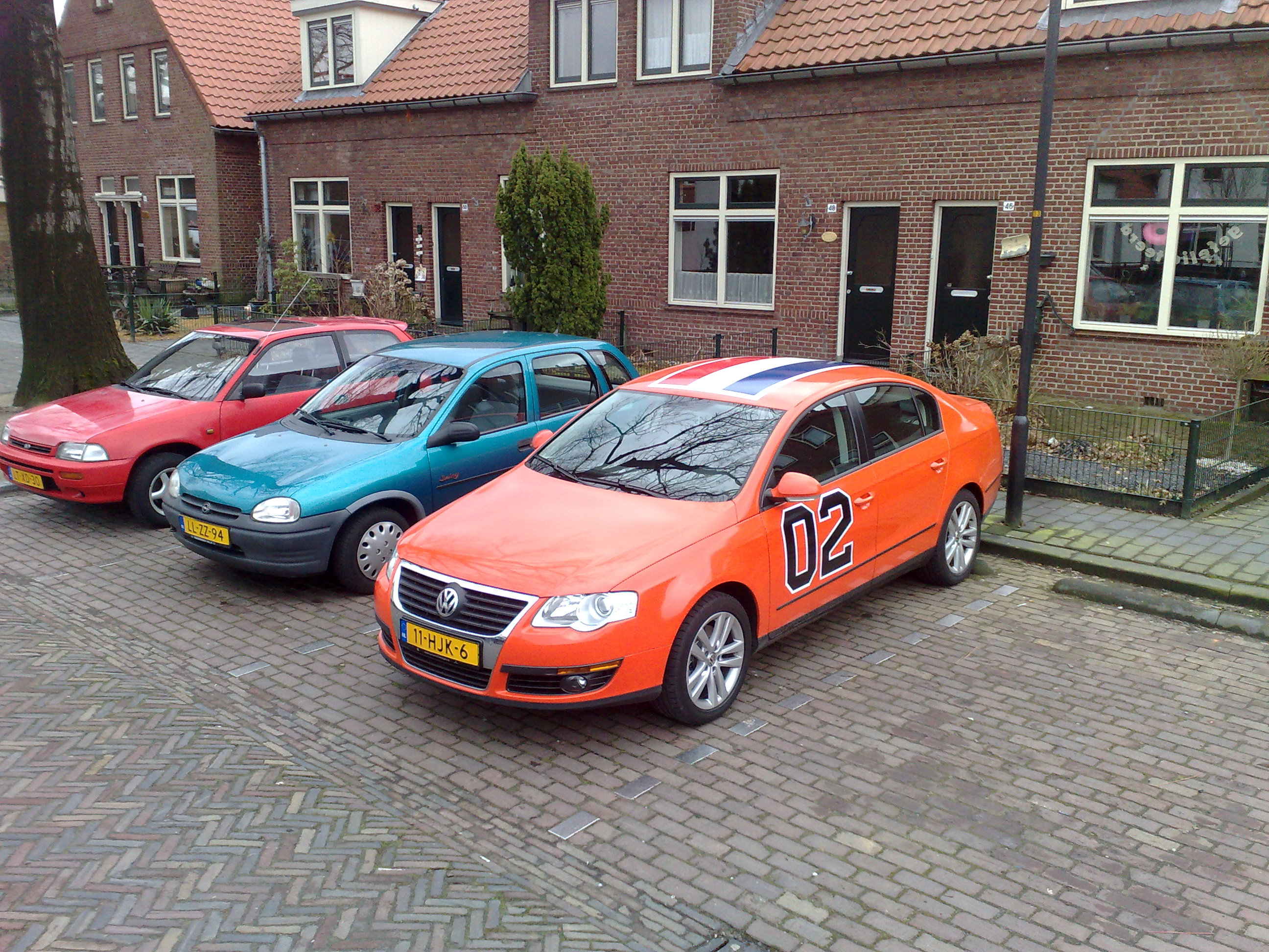 A car used in the campaign Het Nieuwe Rijden, to promote new style driving. This campaign was a parody on The Dukes of Hazzard. Car seen in Enschede